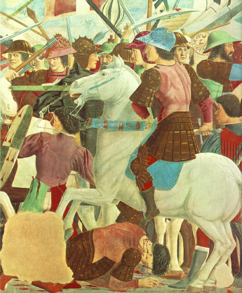 PIERO della FRANCESCA Battle between Heraclius and Chosroes Fresco, 329 x 747 cm San Francesco, Arezzo